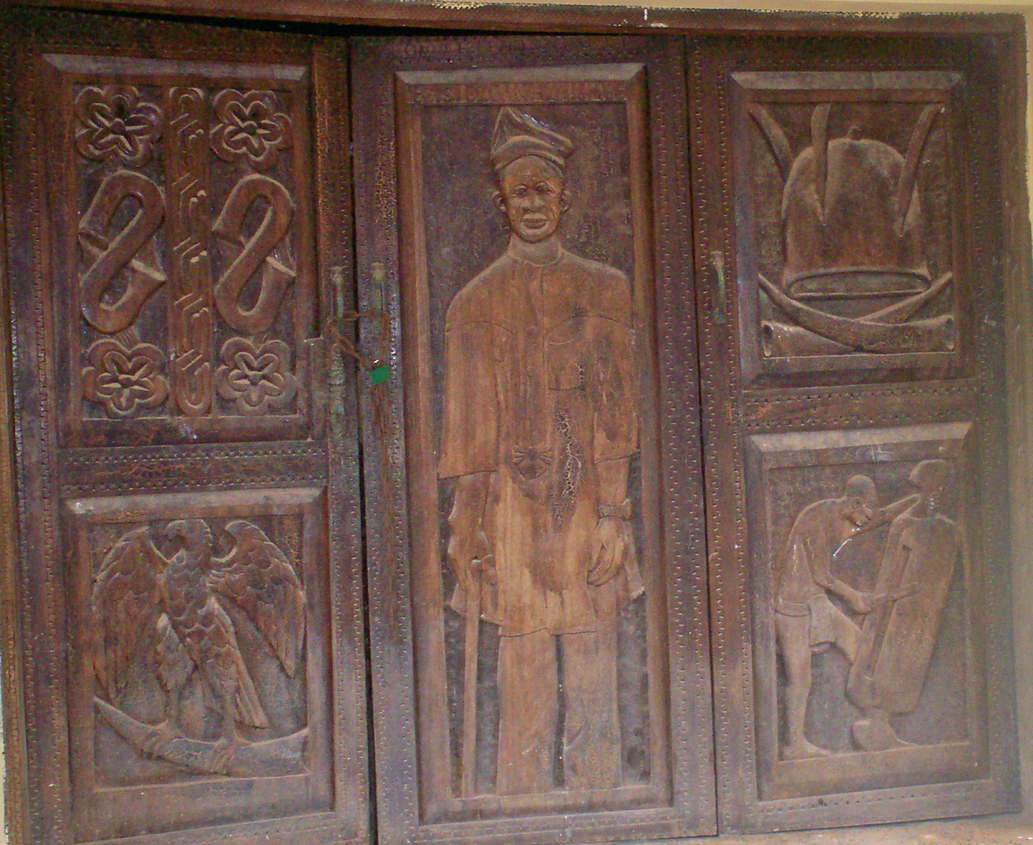 Photograph of a contemporary Igbo carved door taken in Umunocha village Awka-Etiti, Anambra State, Nigeria. The door was carved about 1985.